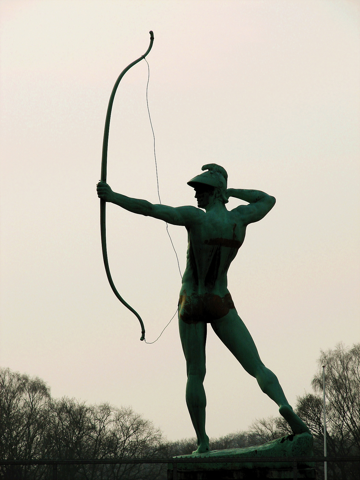 In connection with the construction of Idrætshuset in 1912, brewer Carl Jacobsen bought this copy of the bronze statue of an archer by Ernst Moritz Geyger originally cast in 1895 for the Sanssouci Park (Potsdam), and in 1913 it was installed at Østerbro Stadium in Copenhagen in axis against Østerbrogade.